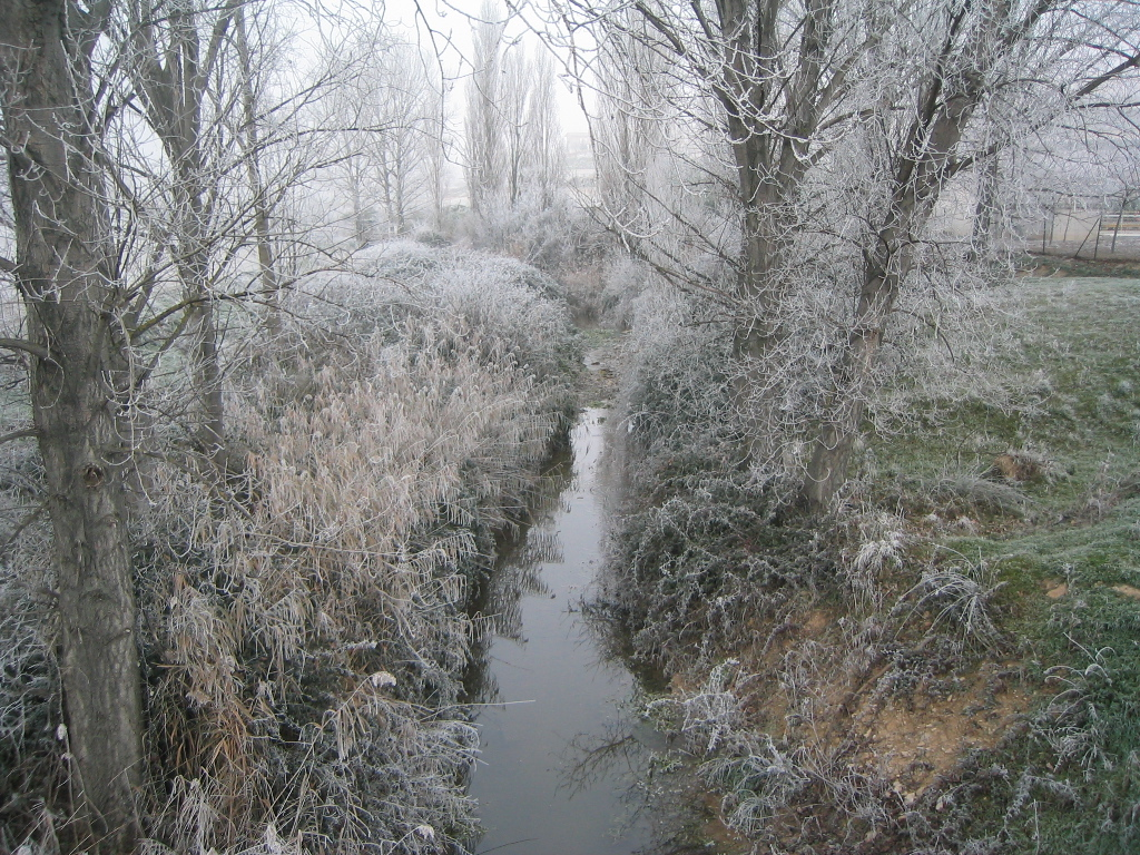 Zidacos river in Garínoain, Navarre (Spain)